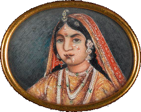 A handsome miniature of Rani of Jhansi found during the capture of the Nawab of Farrukhabad's palace in 1857. The Nawab was something of a reluctant rebel, having been forced into supporting the Indian Rebellion of 1857 by the presence of rebel sepoys on his territory. Yet he clearly felt an affinity for the rebel Indian rulers depicted in the miniatures as they were found on display in his bedchamber.